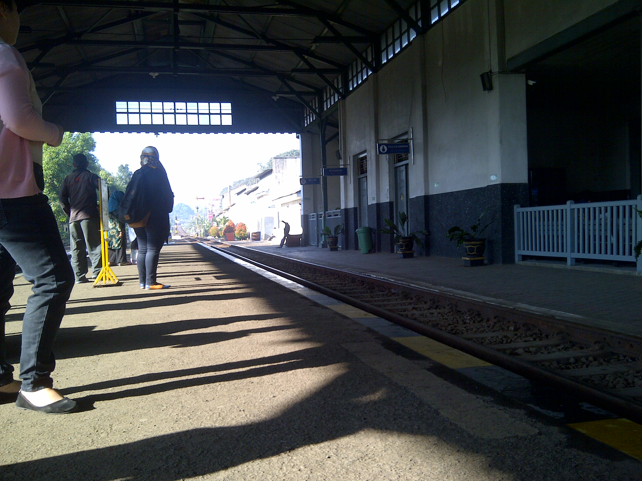 The station platforms of Stasiun Lawang in Lawang, Malang's neighboring town that is situated 20 Km's north. Operated by Kereta Api Indonesia, this station is on the DAOP8 Surabaya operating area of the Indonesian Railway and is the highest station in elevation for it.